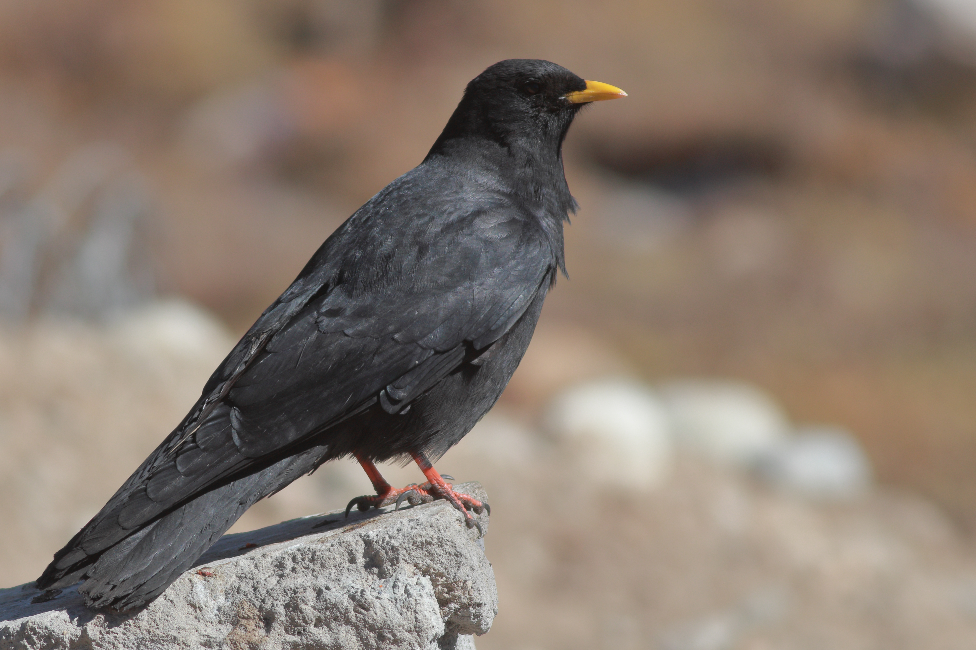 The species Yellow-billed Chough had been photographed from North Sikkim, India in the month of November 2019.